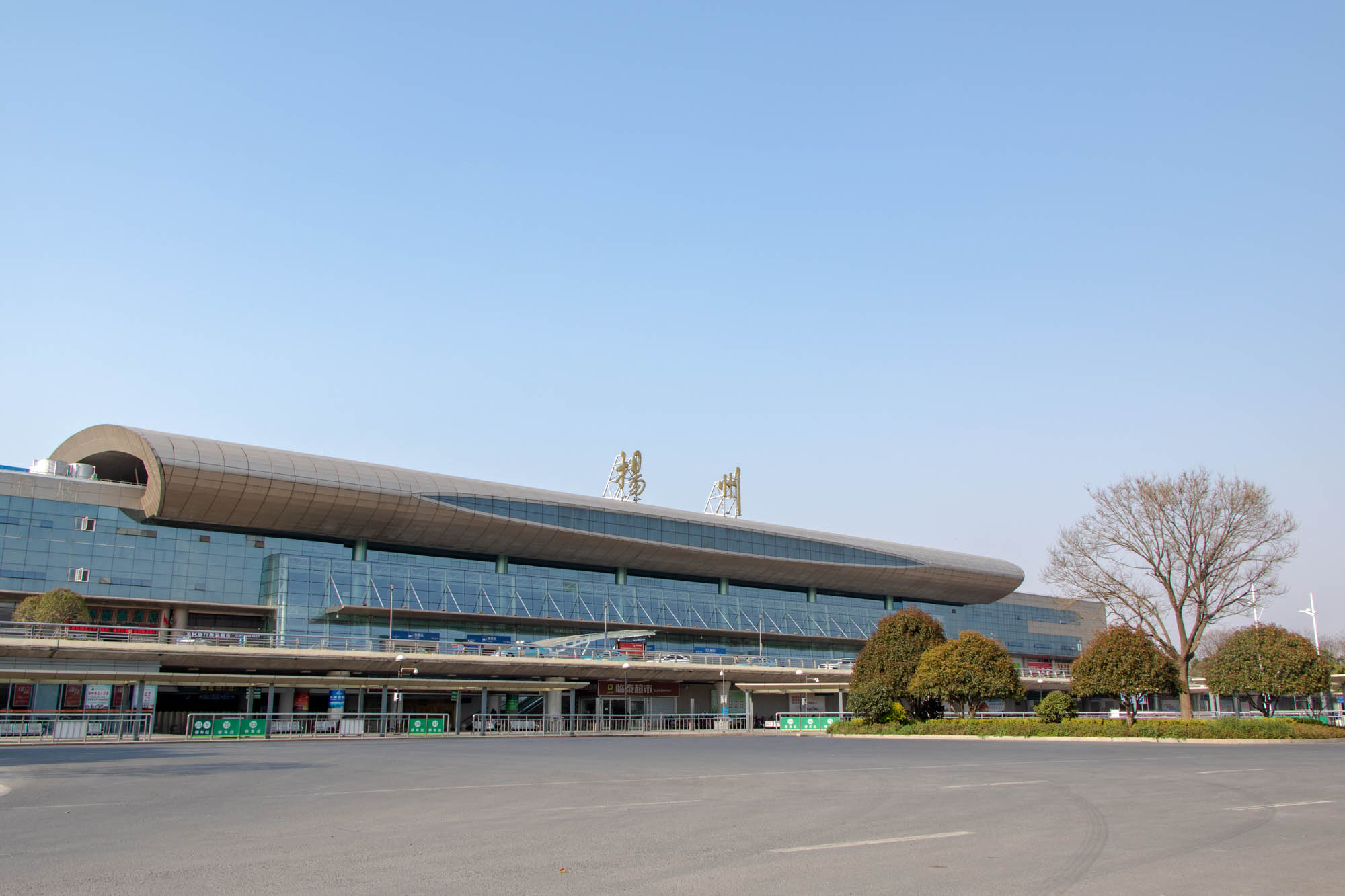 Yangzhou Railway Station, China Railway